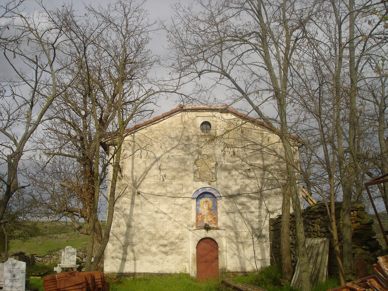 Church in the village of Chanishte in Mariovo region, Macedonia